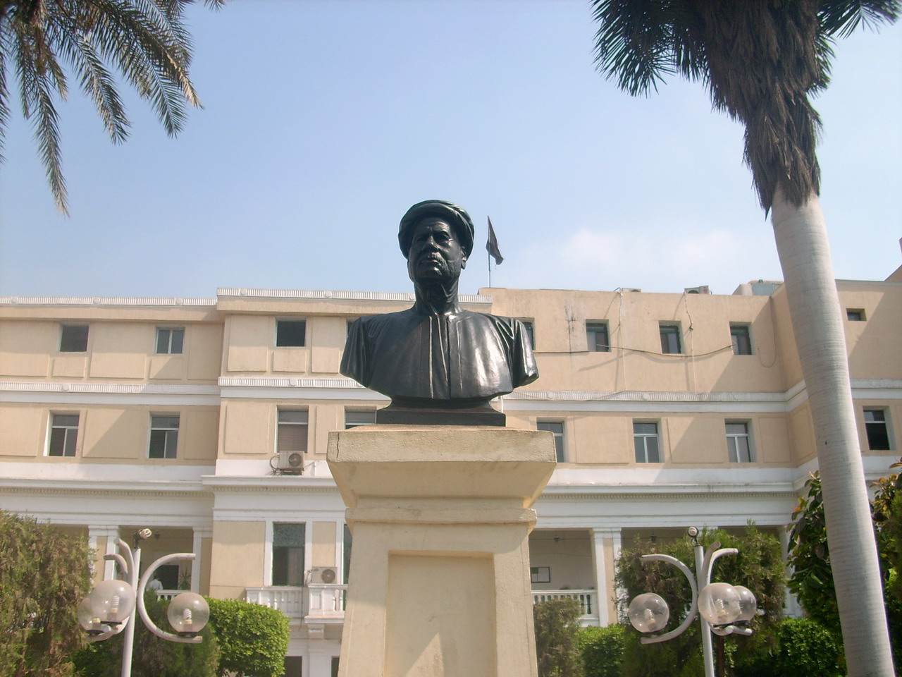 The Statue of El-Demerdash Pasha inside the original El-Demerdash Hospital